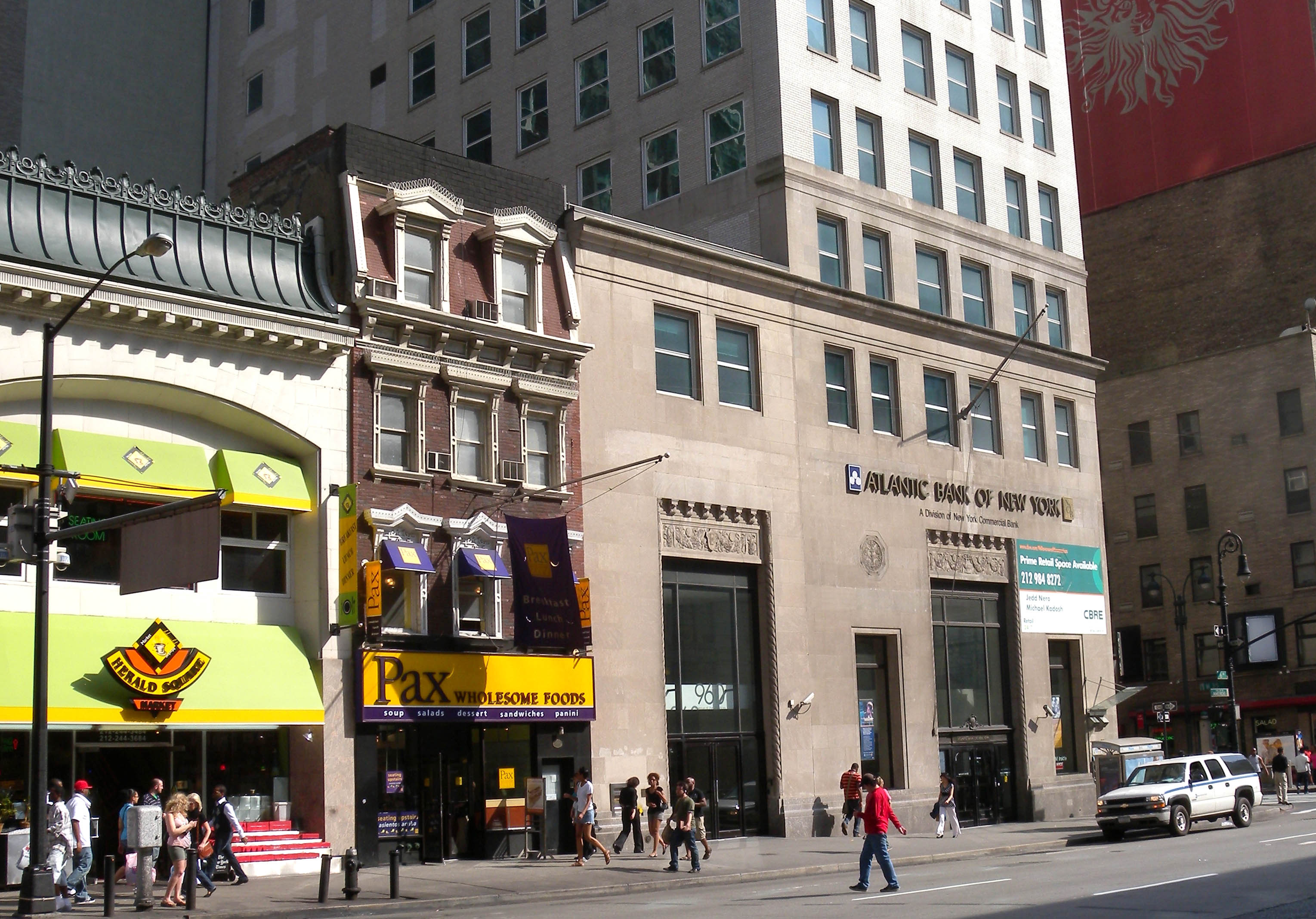 Looking southeast at Atlantic Bank of New York at 6th Avenue and 35th Street on a sunny afternoon.